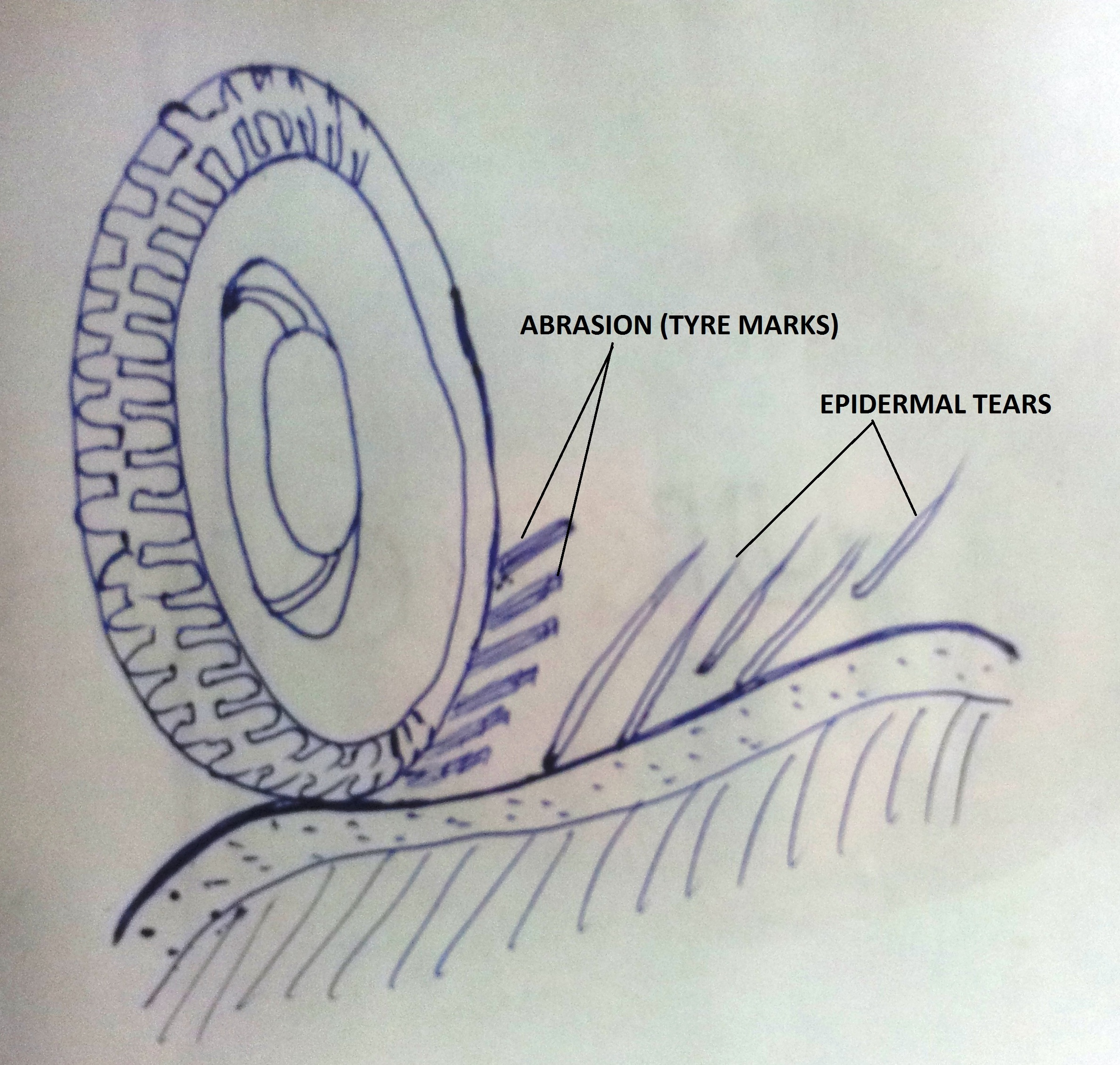 ਪ੍ਰਤਿਮਾਨਿਤ ਝਰੀਟਾਂ